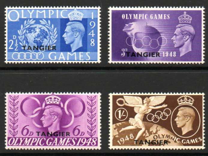 1948 British stamps for the London Olympics overprinted for use in Tangier.